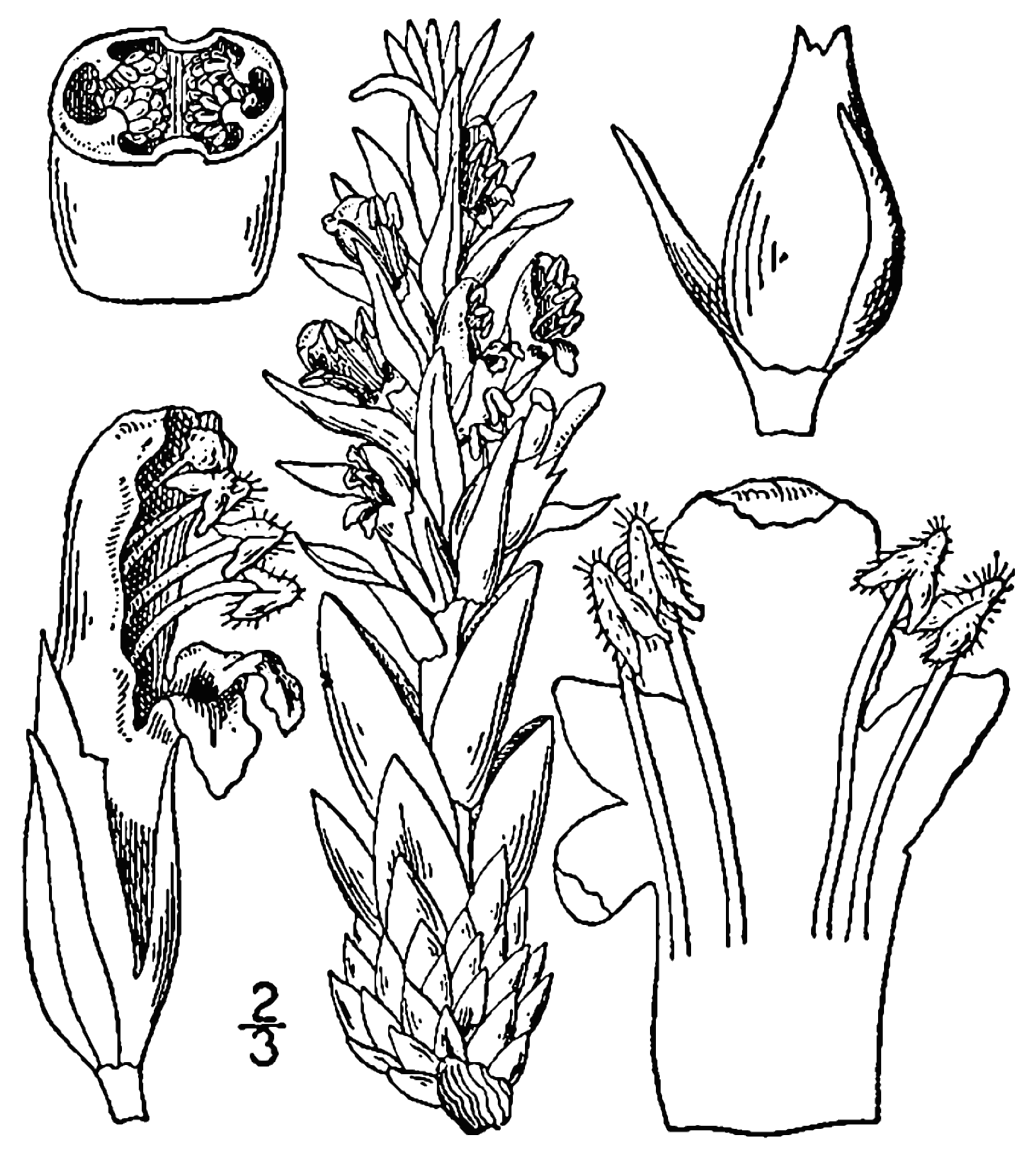 Line drawing of Conopholis americana